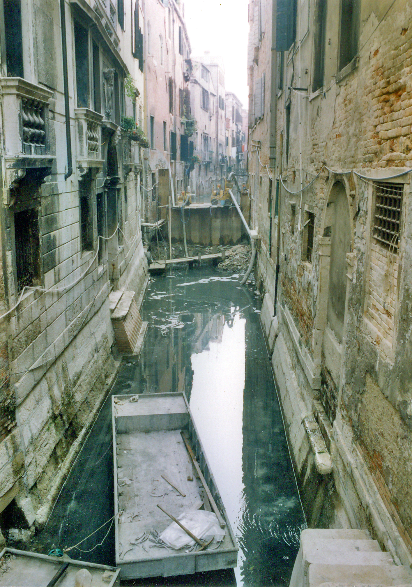 Cleaning of Venetian canals, late 90's